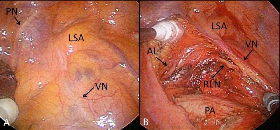 Intraoperative thoracoscopic view of the left upper mediastinum. A) An intraoperative view before the lymph node dissection of the left upper mediastinum. There was no aortic arch. The vagus nerve, which passed over the left subclavian artery, was identified. B) An intraoperative view after the upper mediastinal lymph node dissection. The recurrent laryngeal nerve, which branched from the vagus nerve, was identified. The recurrent laryngeal nerve passed beneath the arterial ligament. AL, arterial ligament; LSA, left subclavian artery; PA, pulmonary artery; PN, phrenic nerve; RLN, recurrent laryngeal nerve; VN, vagus nerve.